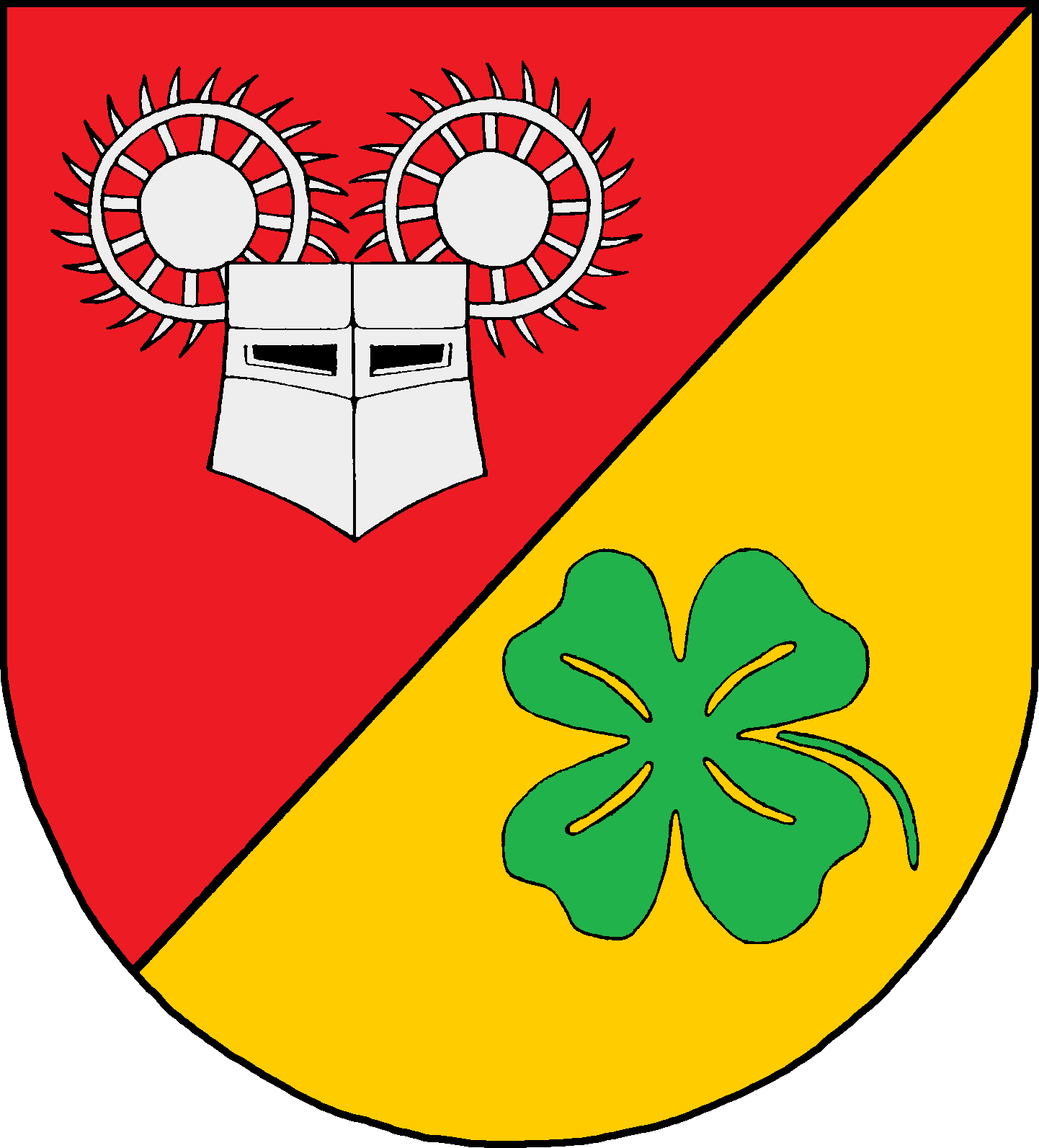 Coat of arms of the municipality Rathjensdorf in Schleswig-Holstein, Germany.